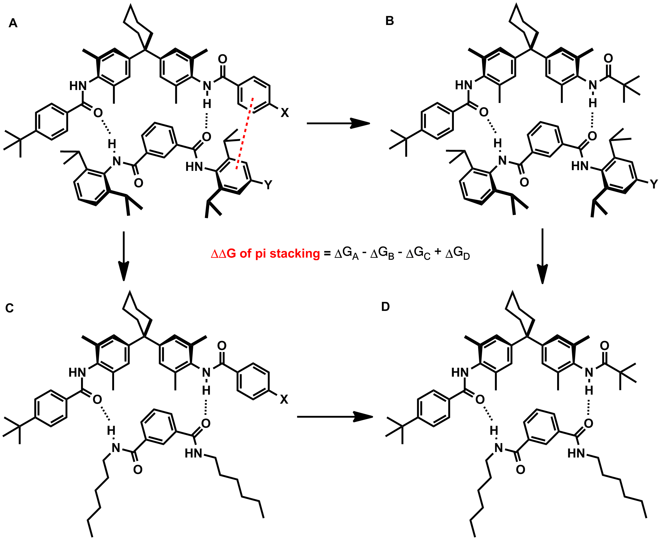 Double mutant cycle used by Hunter et al. (Org. Biomol. Chem., 2007, 5, pp 1062-1080) to probe T-shaped pi stacking interactions.